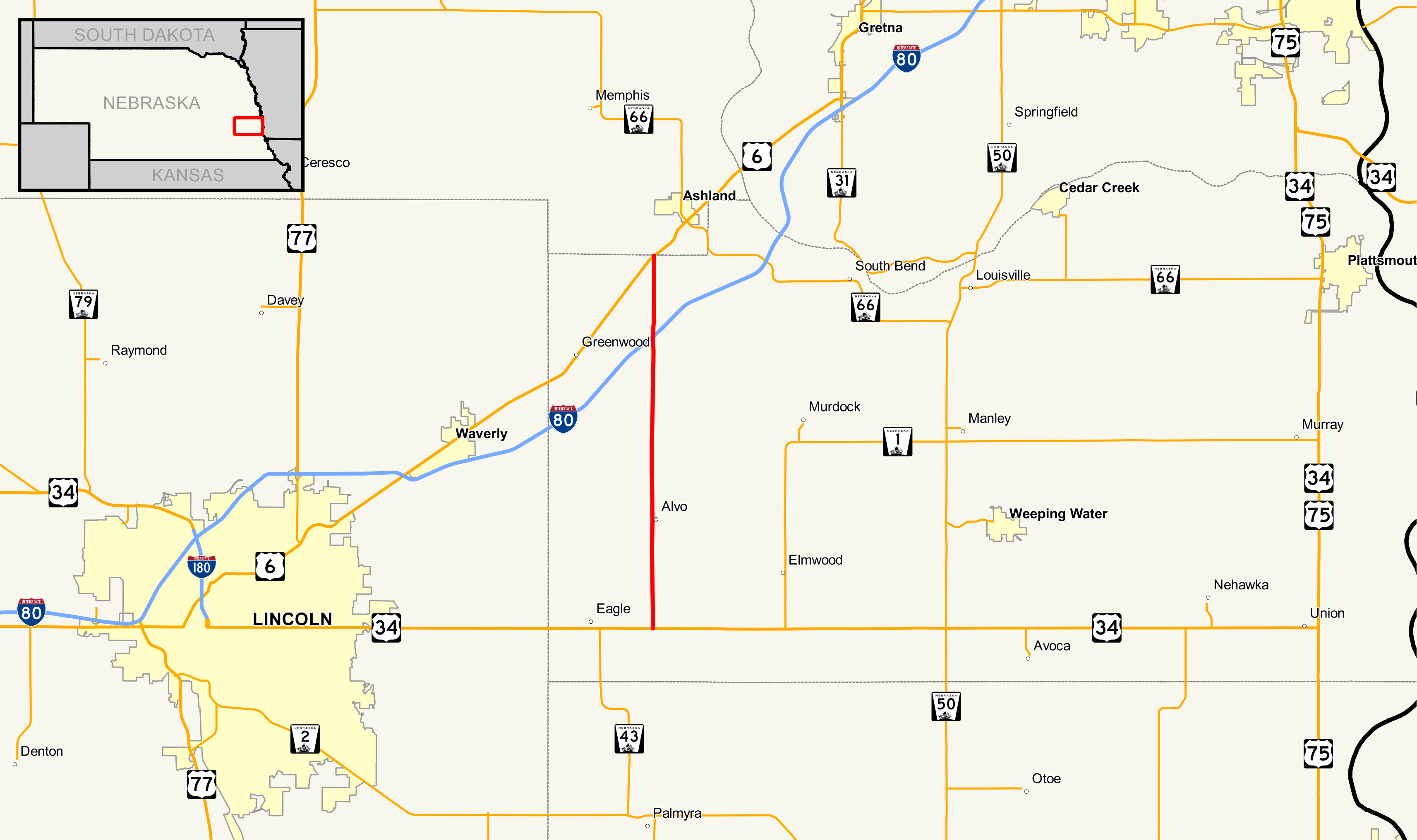 Map of Nebraska Highway 63 Data Sources: Nebraska Highways - - Dec 2016 Nebraska County Boundaries - - Dec 2016 Nebraska City Boundaries - - Dec 2016 This PNG graphic was created with QGIS